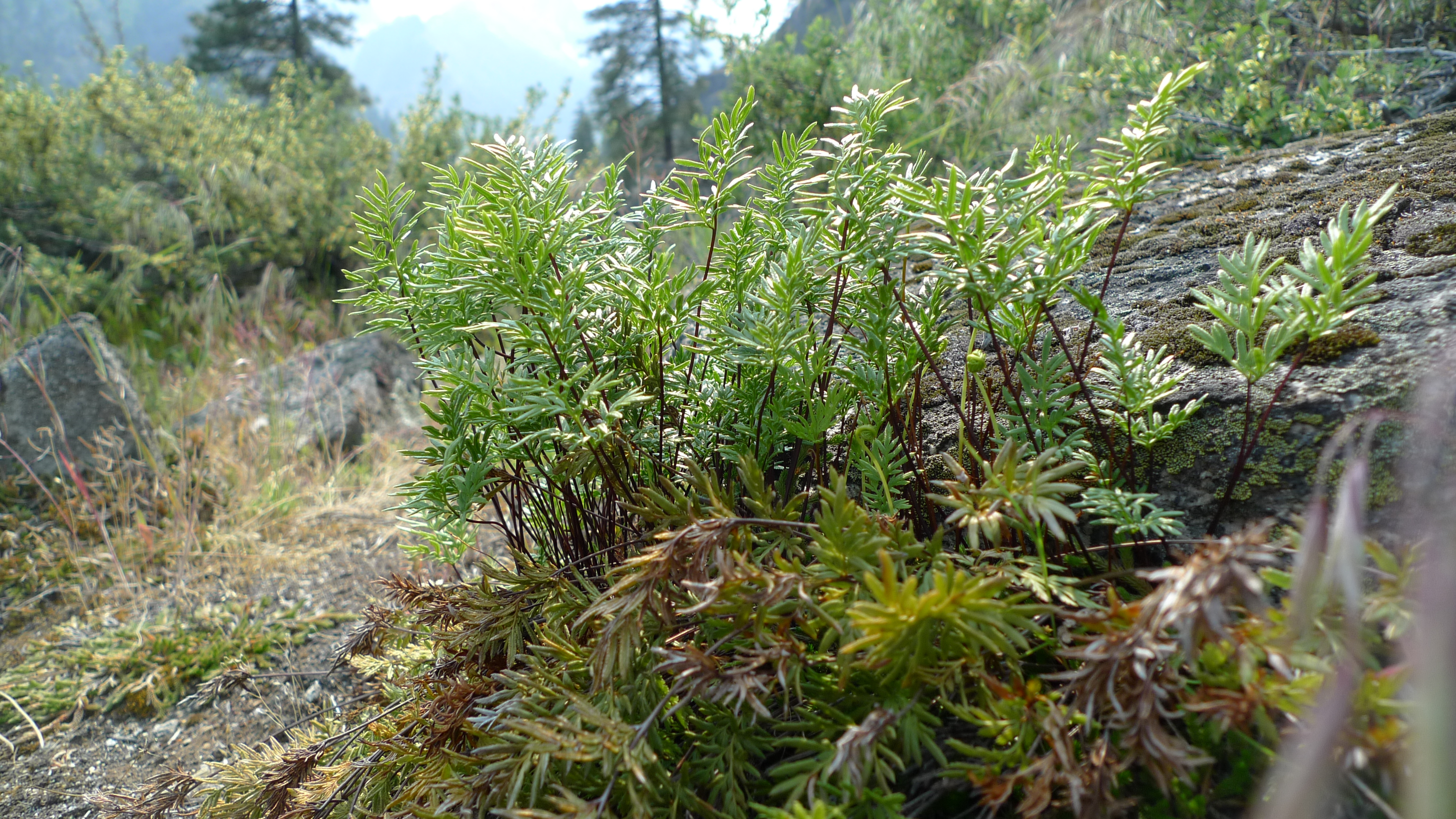 Aspidotis densa at Icicle Canyon, Chelan County Washington